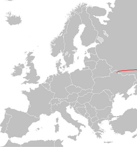 The European route 38